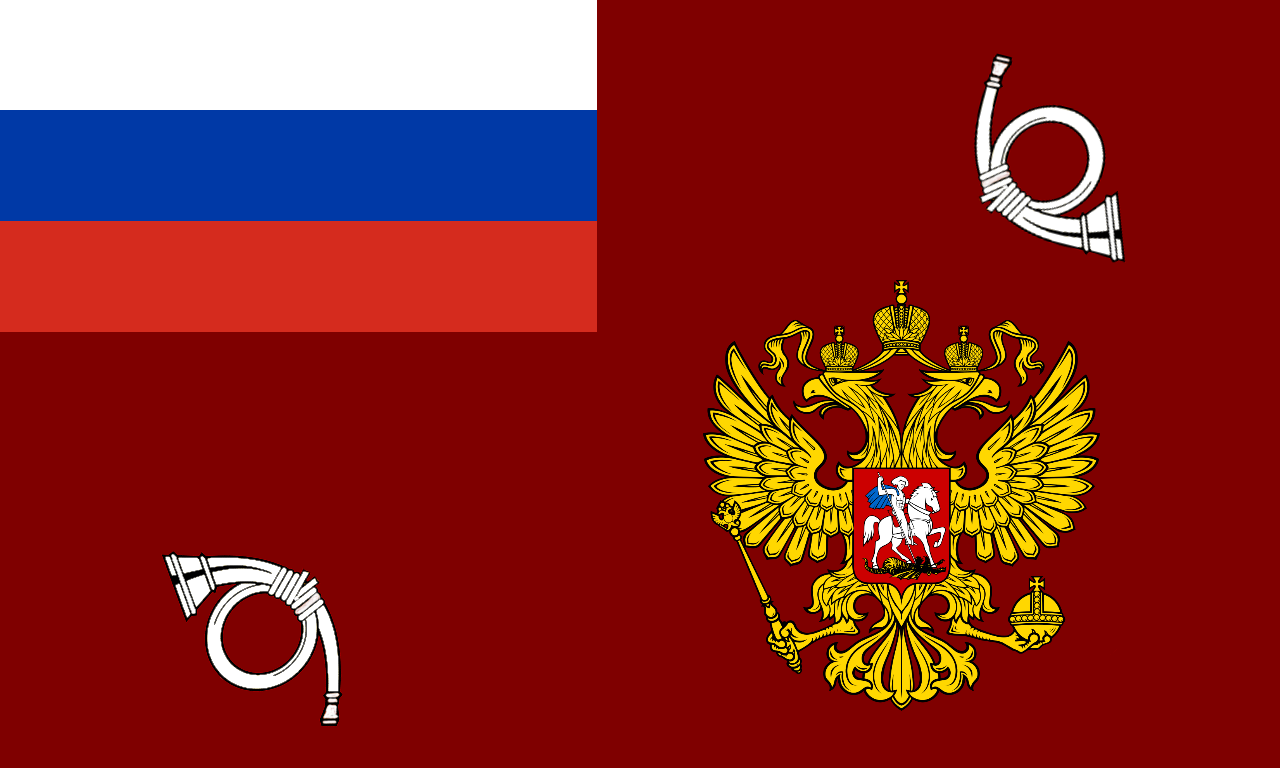 Flag of State Courier Service of the Russian Federation (GFS).